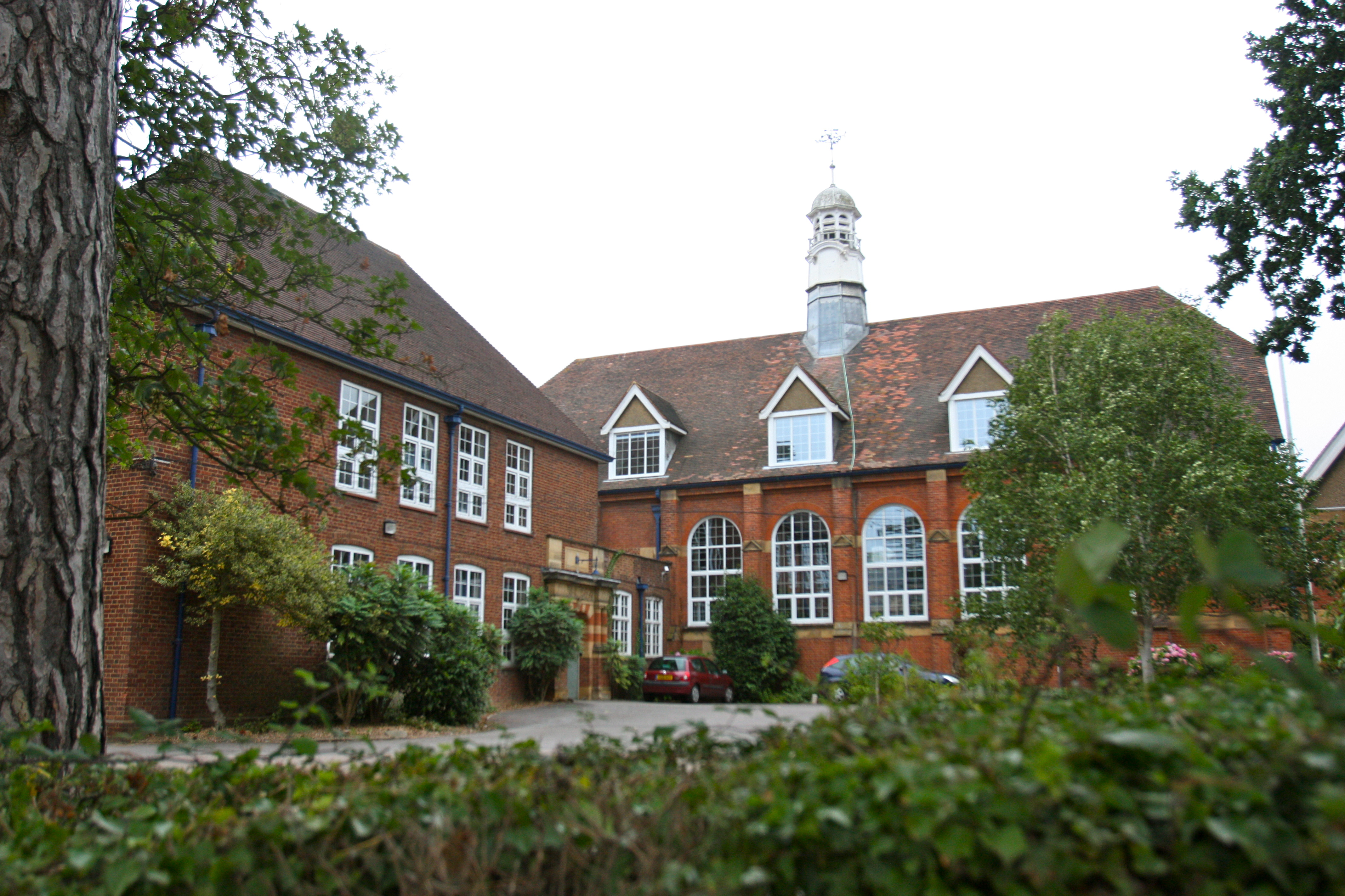 The School Building of the Judd School, which includes the assembly hall.